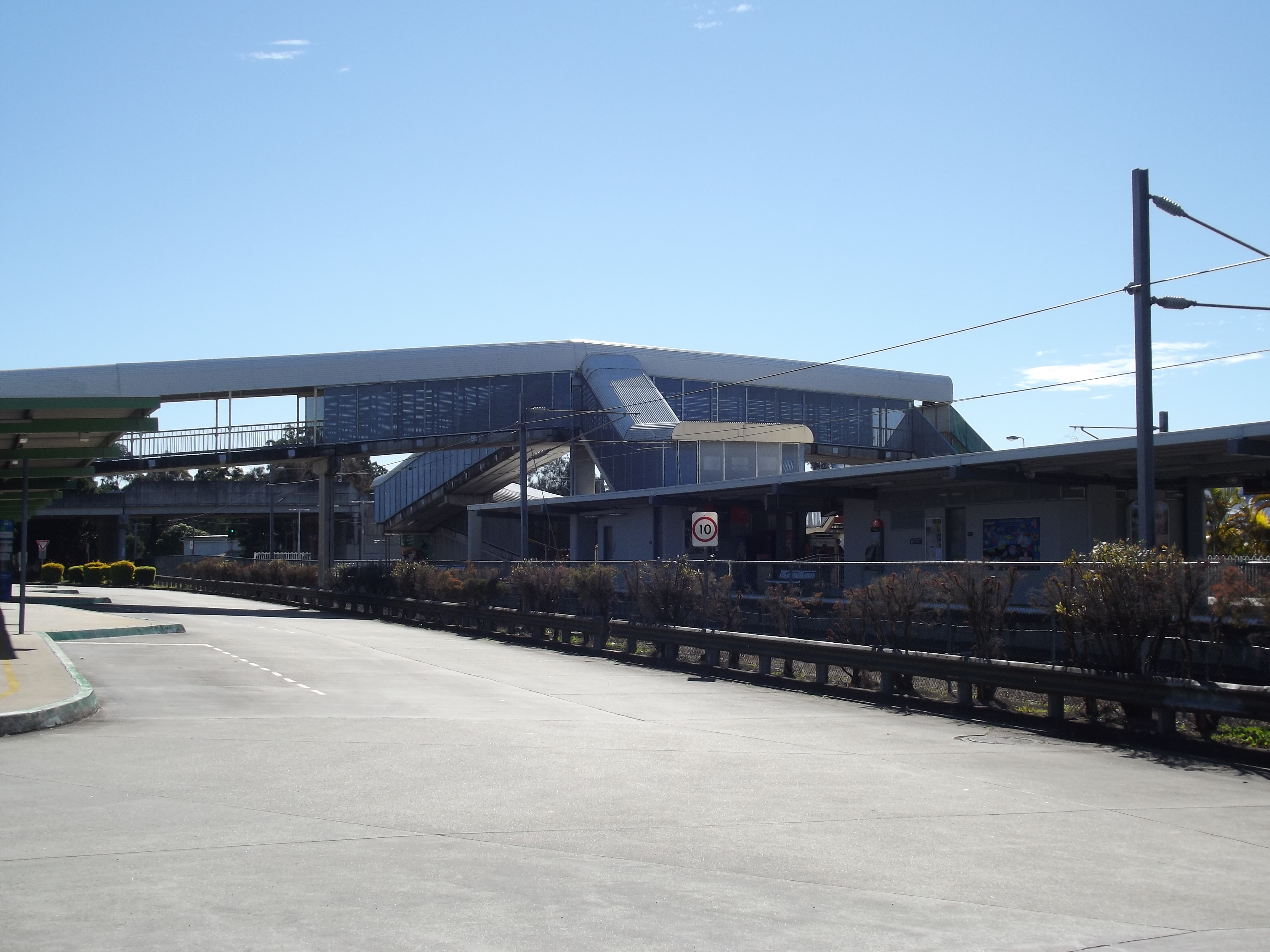 A photo of the Enoggera railway station on the Ferny Grove line.